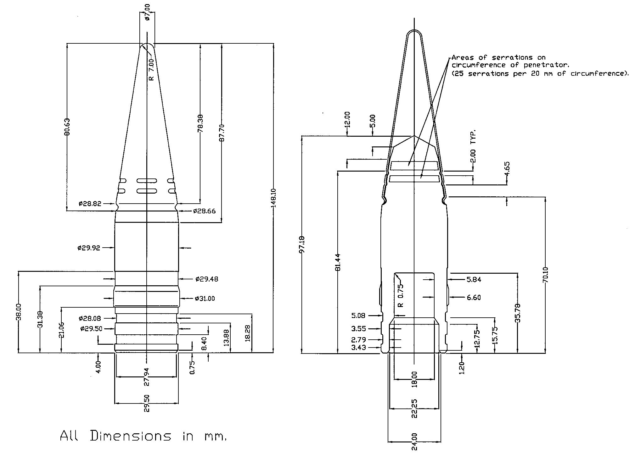 Drawing of a Russian 30 mm model BT Armor-piercing ballistic capped shot used in 2A42 automatic cannons